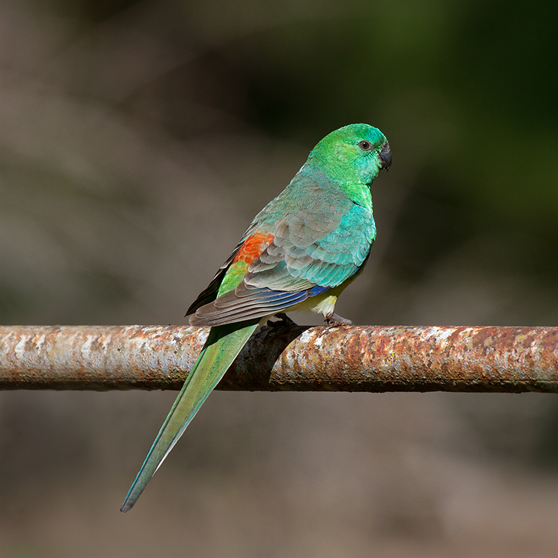 parrot